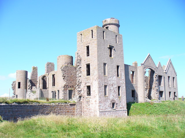 Ruined Slains Castle Huge clifftop pile built of local pink granite. This corner is the oldest part of the castle.